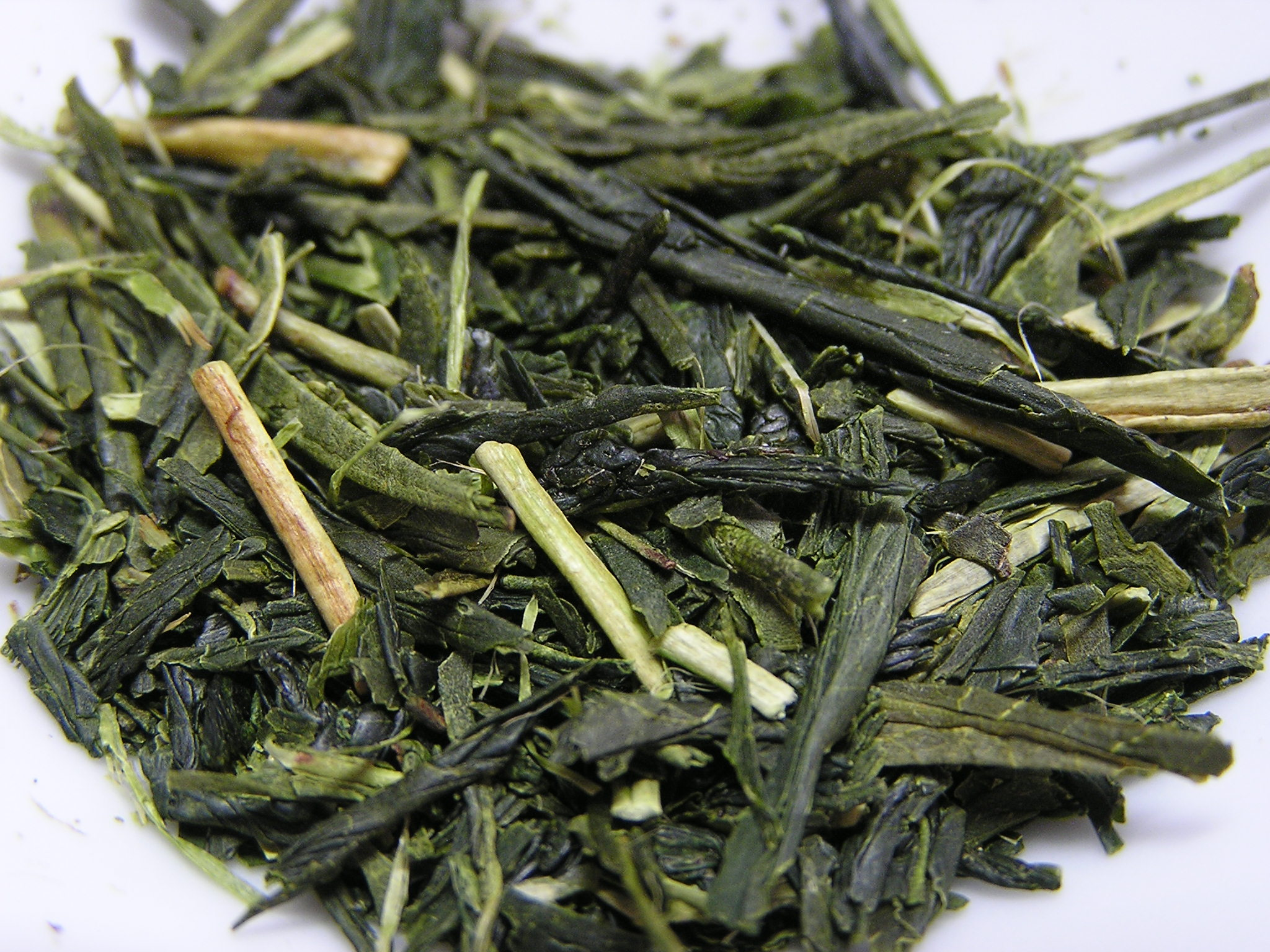 Dry tea leaves of ara-cha in Japanese green tea. The tea leaves is "Kesen-cha yabukita green tea 2009 ara-cha" of xiao-xian roasting kobo in Iwate Japan 2009.